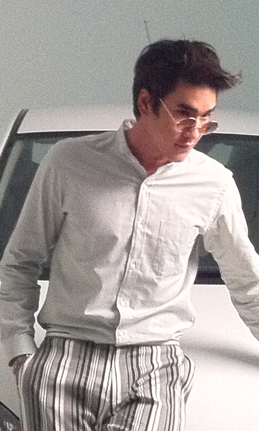 Nadech Kukimiya shooting for magazine.